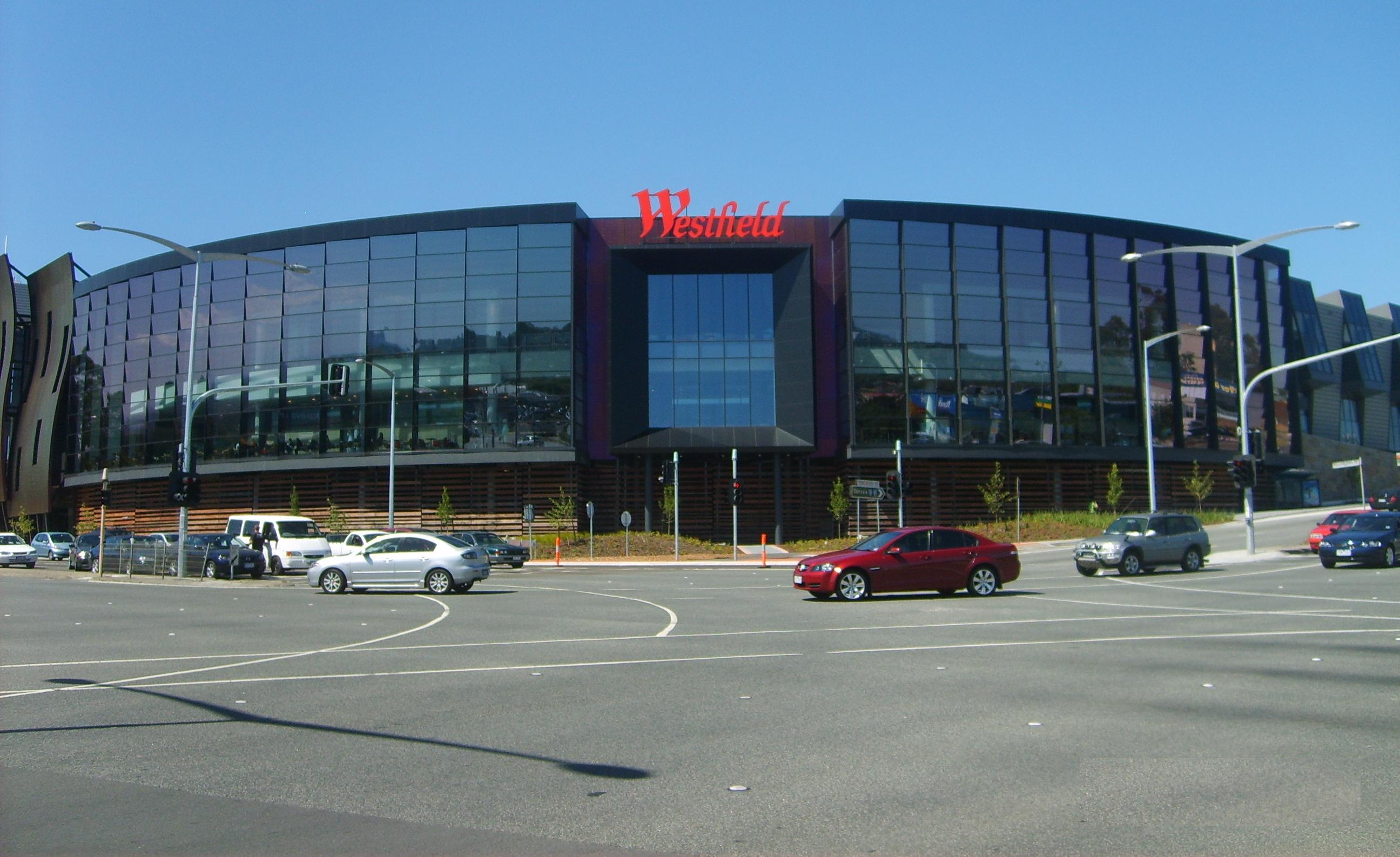 Westfield Doncaster Shopping Centre seen from the Williamsons Rd/Doncaster Rd intersection.